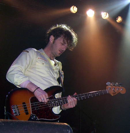 Andrew Whiteman of Broken Social Scene and Apostle of Hustle.